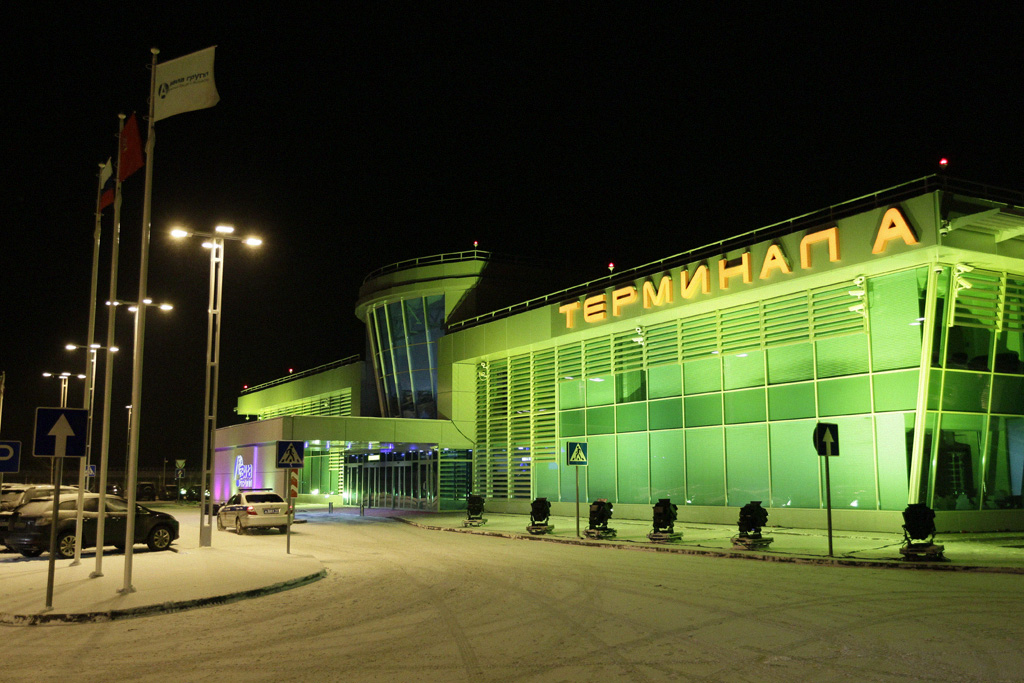 “Presentation of terminal "A" for business aviation passengers at Sheremetyevo airport”. The modern, specialized Terminal "A" for business aviation passengers at Sheremetyevo international airport.